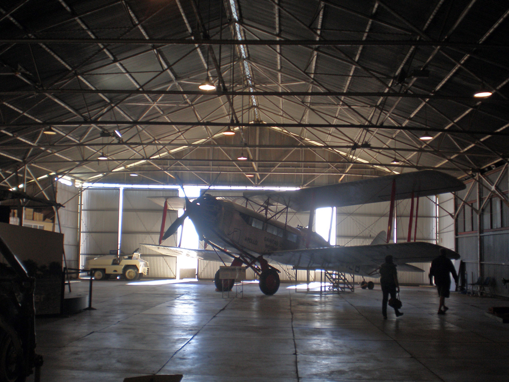 DH.61 Giant Moth (G-AUJB), in original Qantas hangar at Longreach, Queensland, Australia.